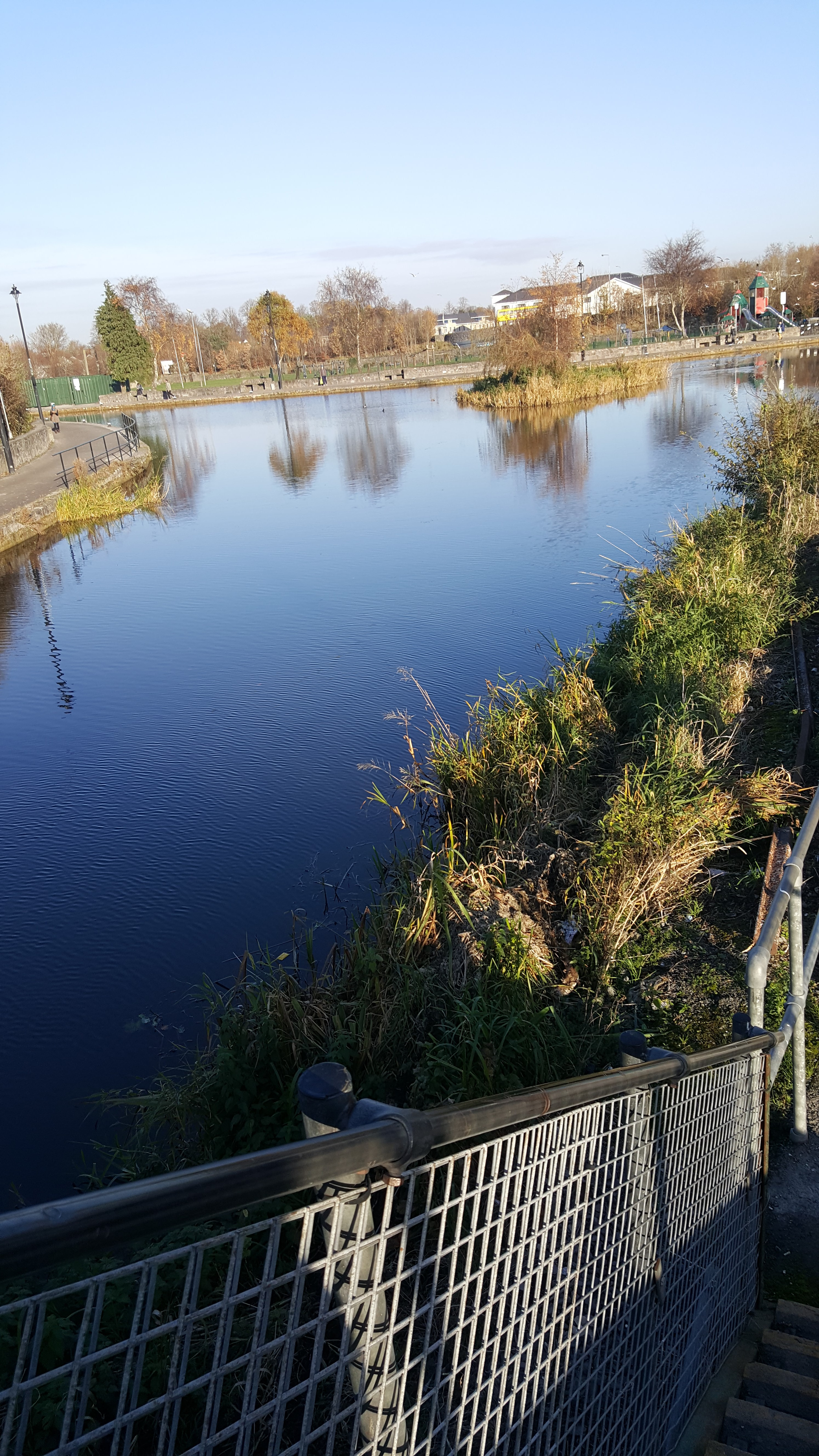 Maynooth Harbour on the Royal Canal by Maynooth Train Station- Nov 28.jpg